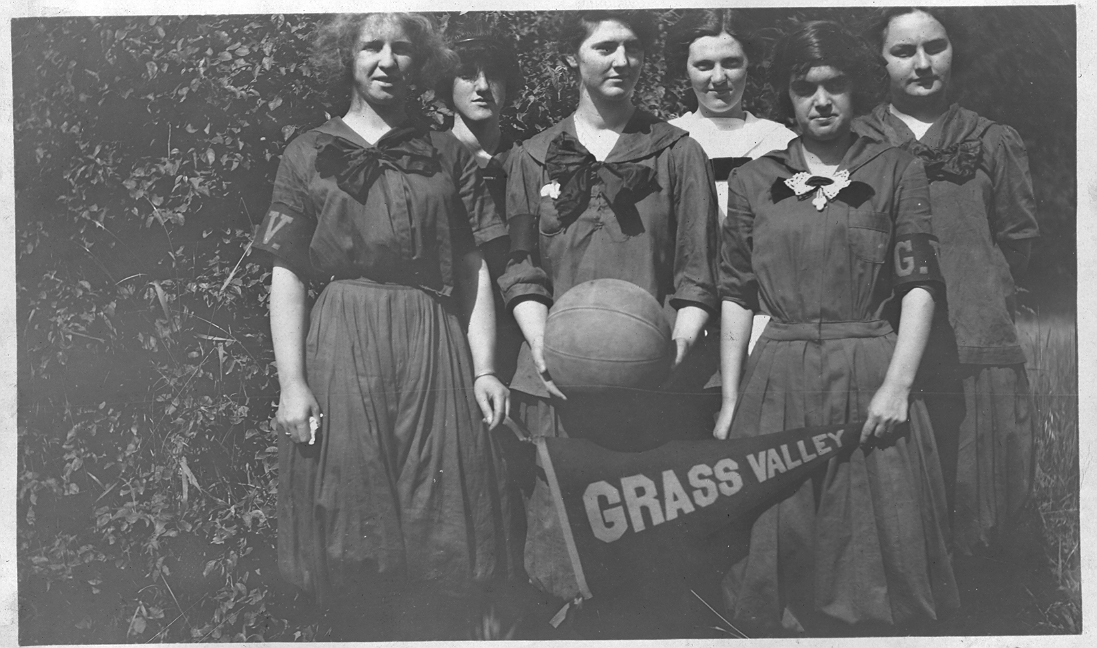 Grass Valley High School girls basketball team. That's my great-aunt Inez Fowler on the right. Scary bunch!